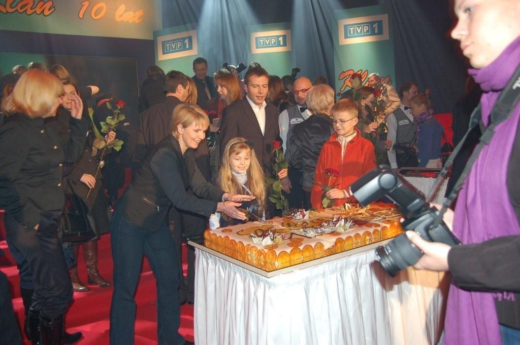 Polish tv-childstar Suzanna von Nathusius cuts the cake at the 10 years' anniversary celebration of the Polish soap opera "Klan" (2007).